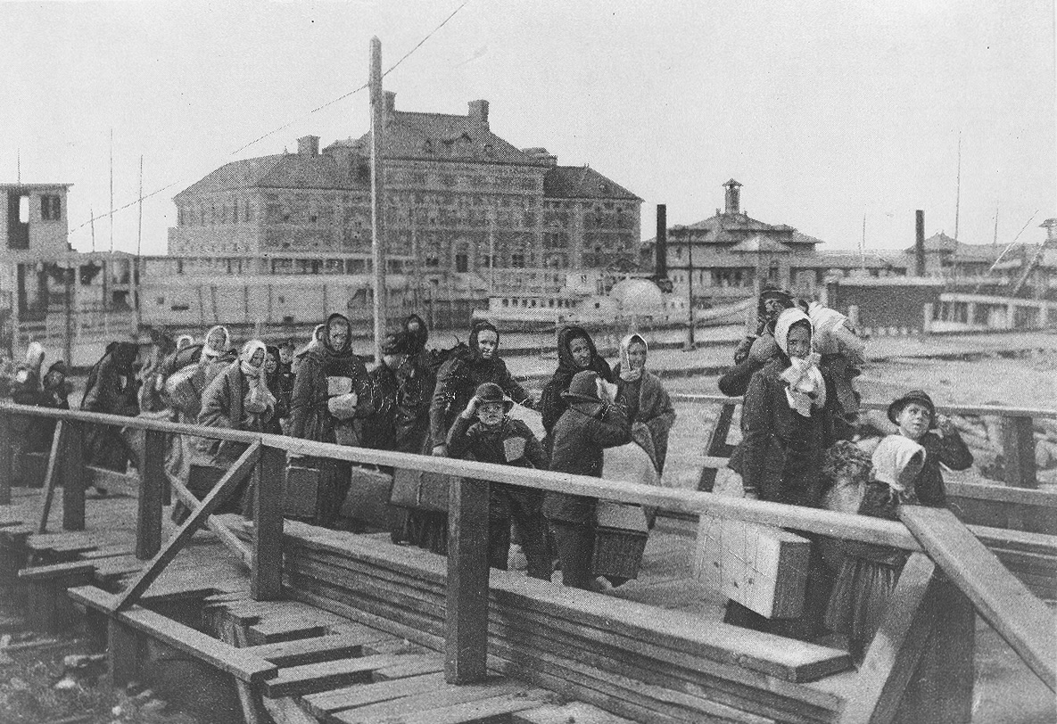 "Emigrants coming up the board-walk from the barge, which has taken them off the steamship company's docks, and transported them to Ellis Island. The big building in the background is the new hospital just opened. The ferry-boat seen in the middle of the picture, runs from New York to Ellis Island." [Original text from Library of Congress "About This Item" page.]